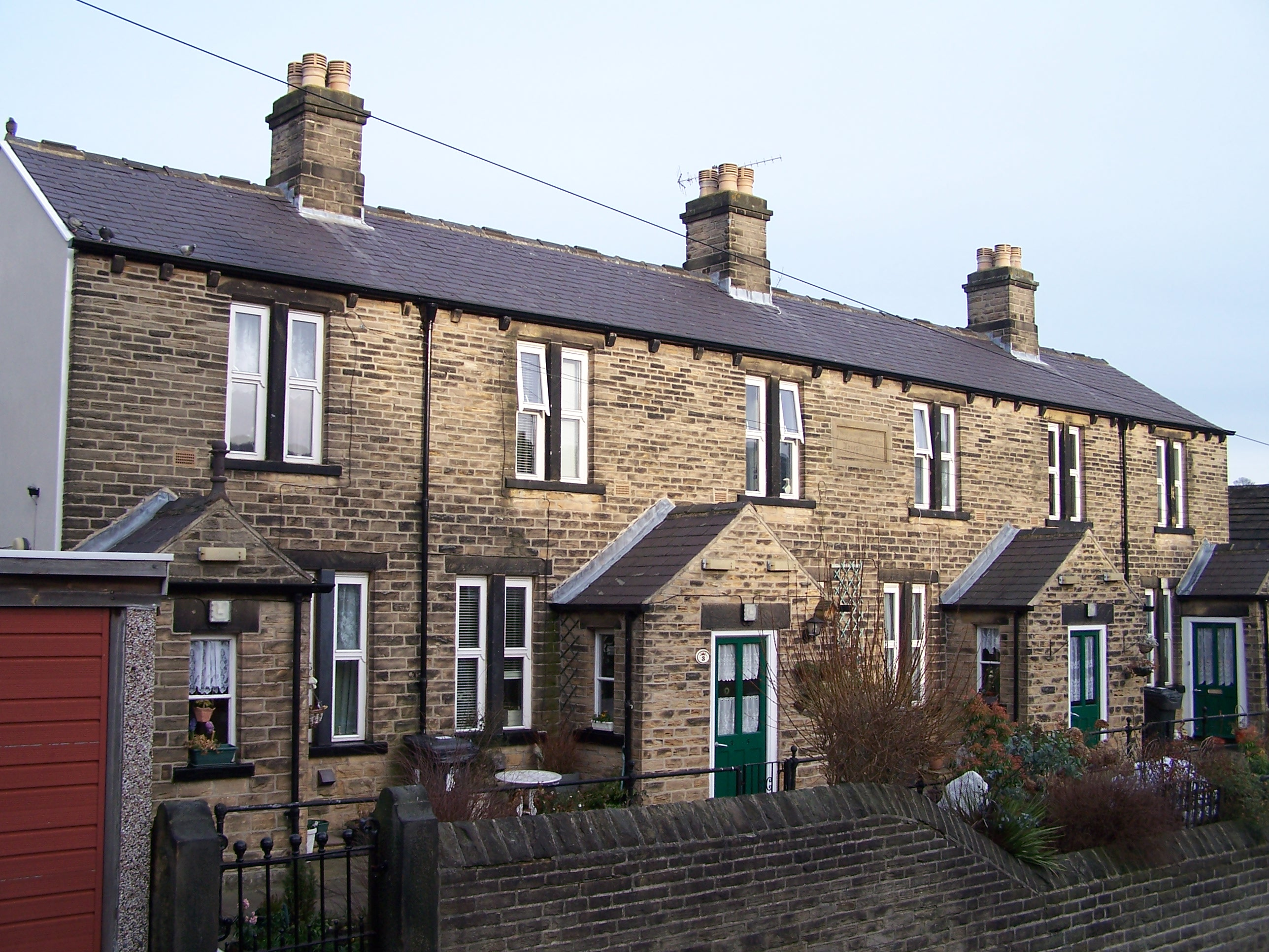 Almshouses, Ivy Road, Stannington, Sheffield. Dates and details are shown in this link ... 1700614